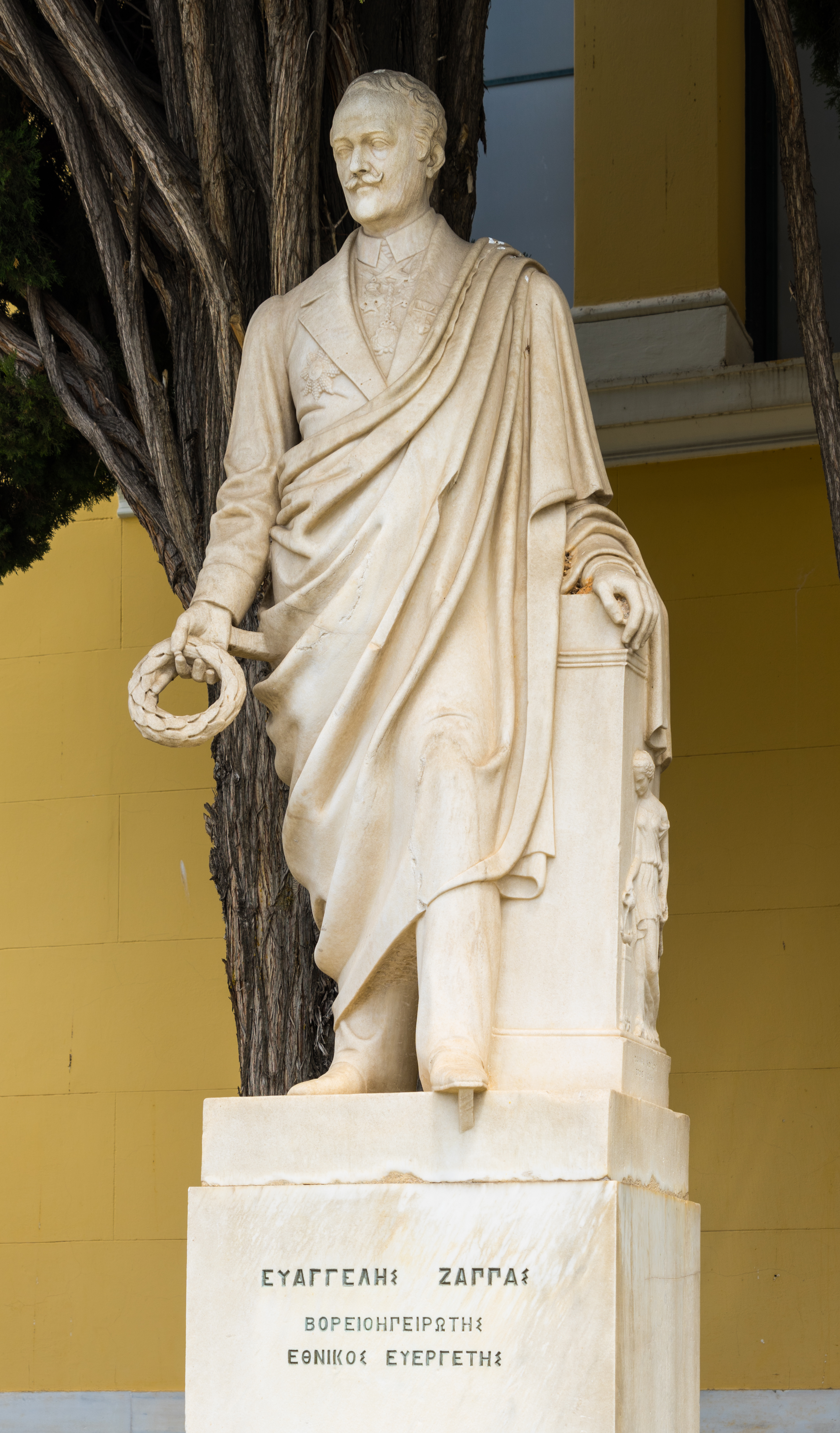 Evangelos Zappas, statue by Kossos, Zappeion, Athens, Greece.